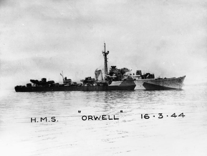 HMS Orwell Underway.